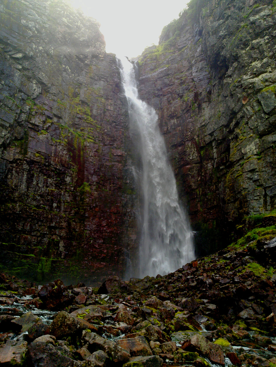 Njupeskär waterfall in Fulufjäll, Sweden